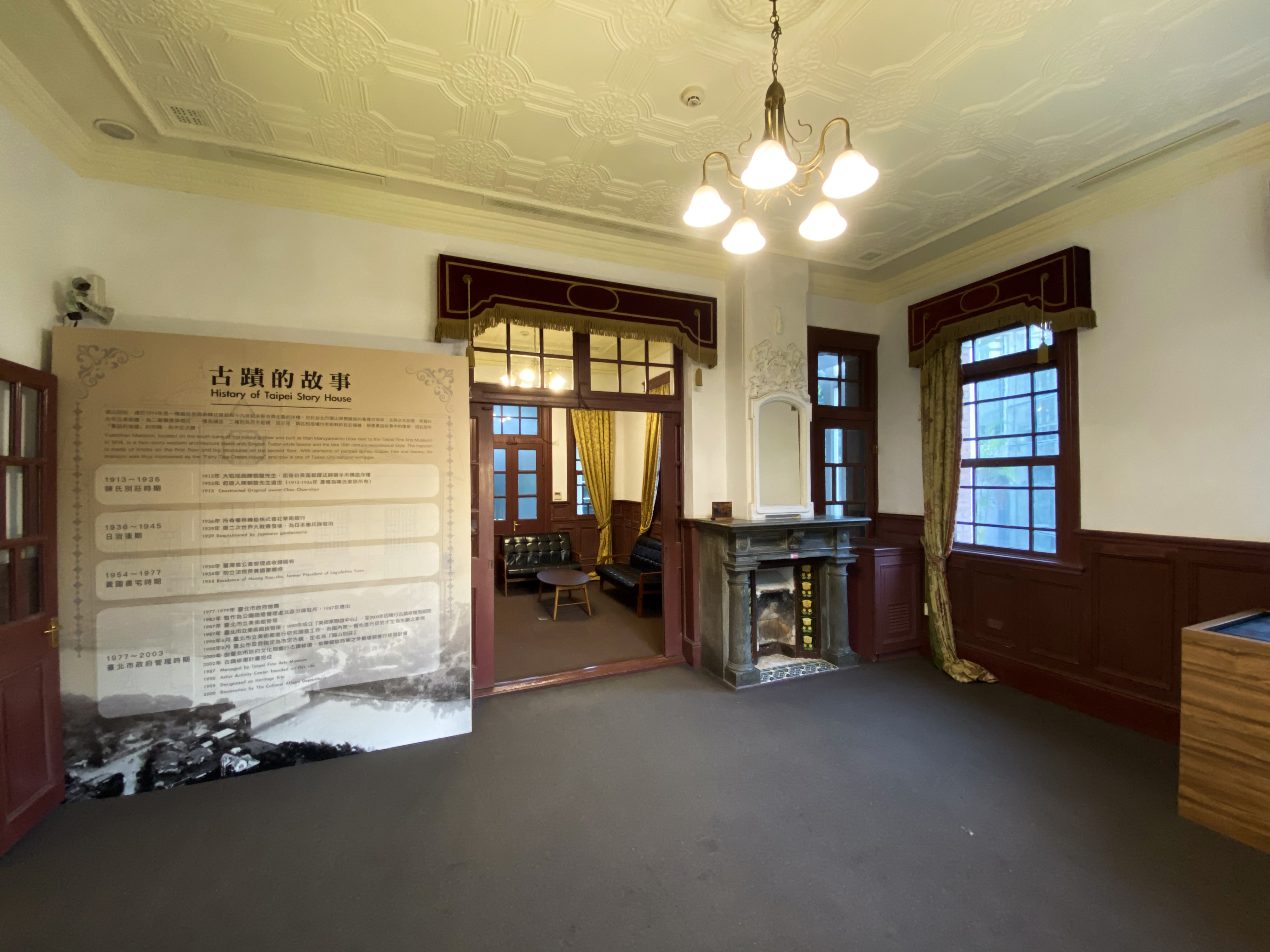 Taipei Story House